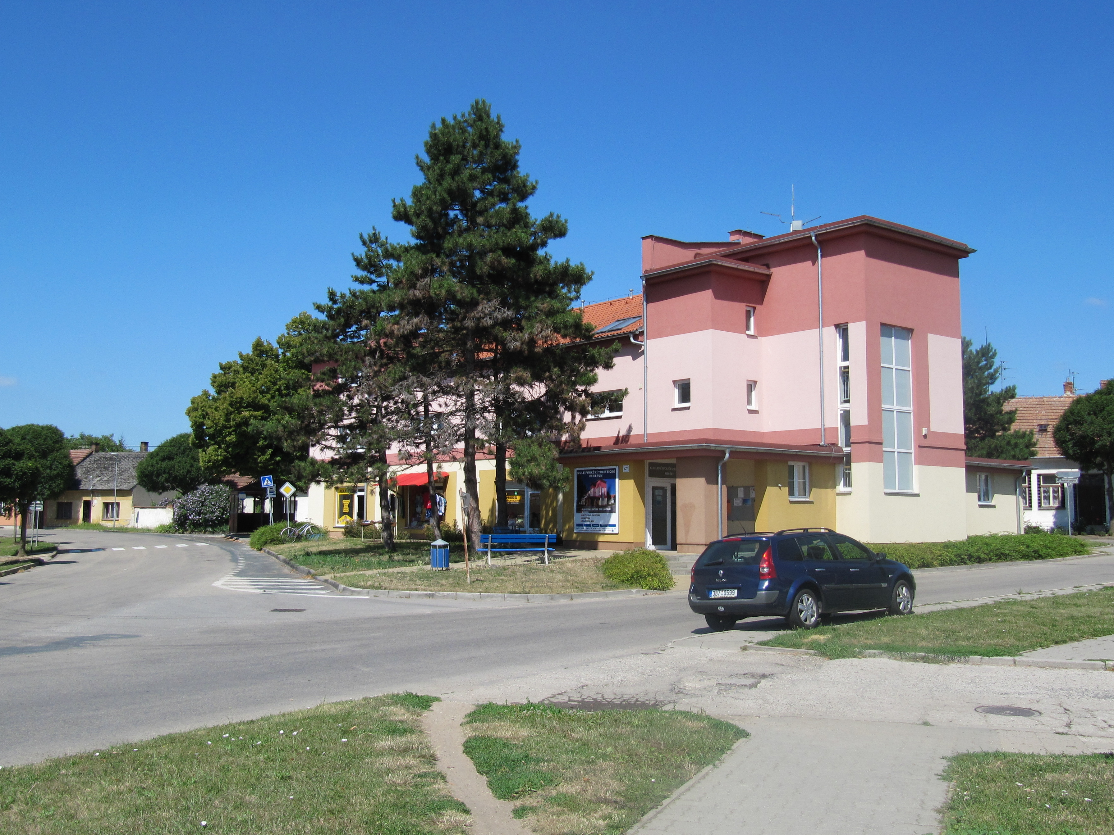 Hrušky in Břeclav District, Czech Republic. Cultural and social center in the middle of the village. This photograph was taken within the scope of the third year of the 'Czech Municipalities Photographs' grant.